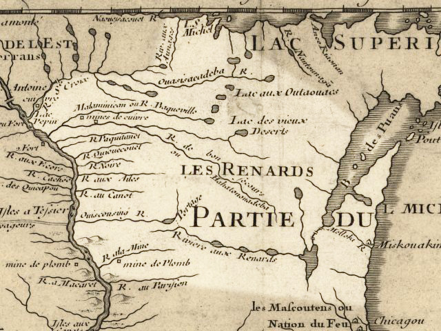 Wisconsin 1718, approximate modern state area highlighted, from Carte de la Louisiane et du cours du Mississipi by Guillaume de L'Isle.